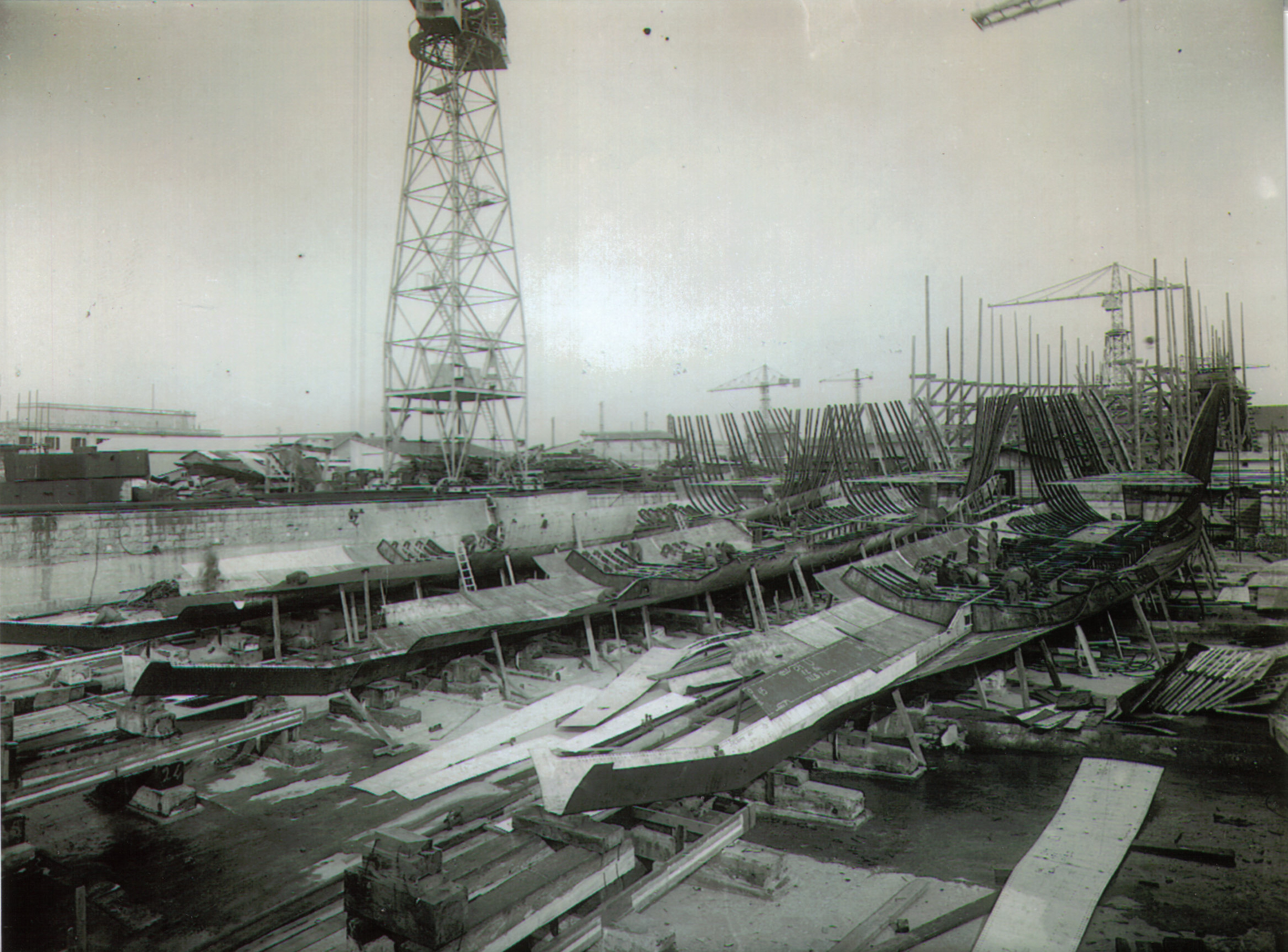 C 22 Capriolo, C 23 Alce, C 24 Renna